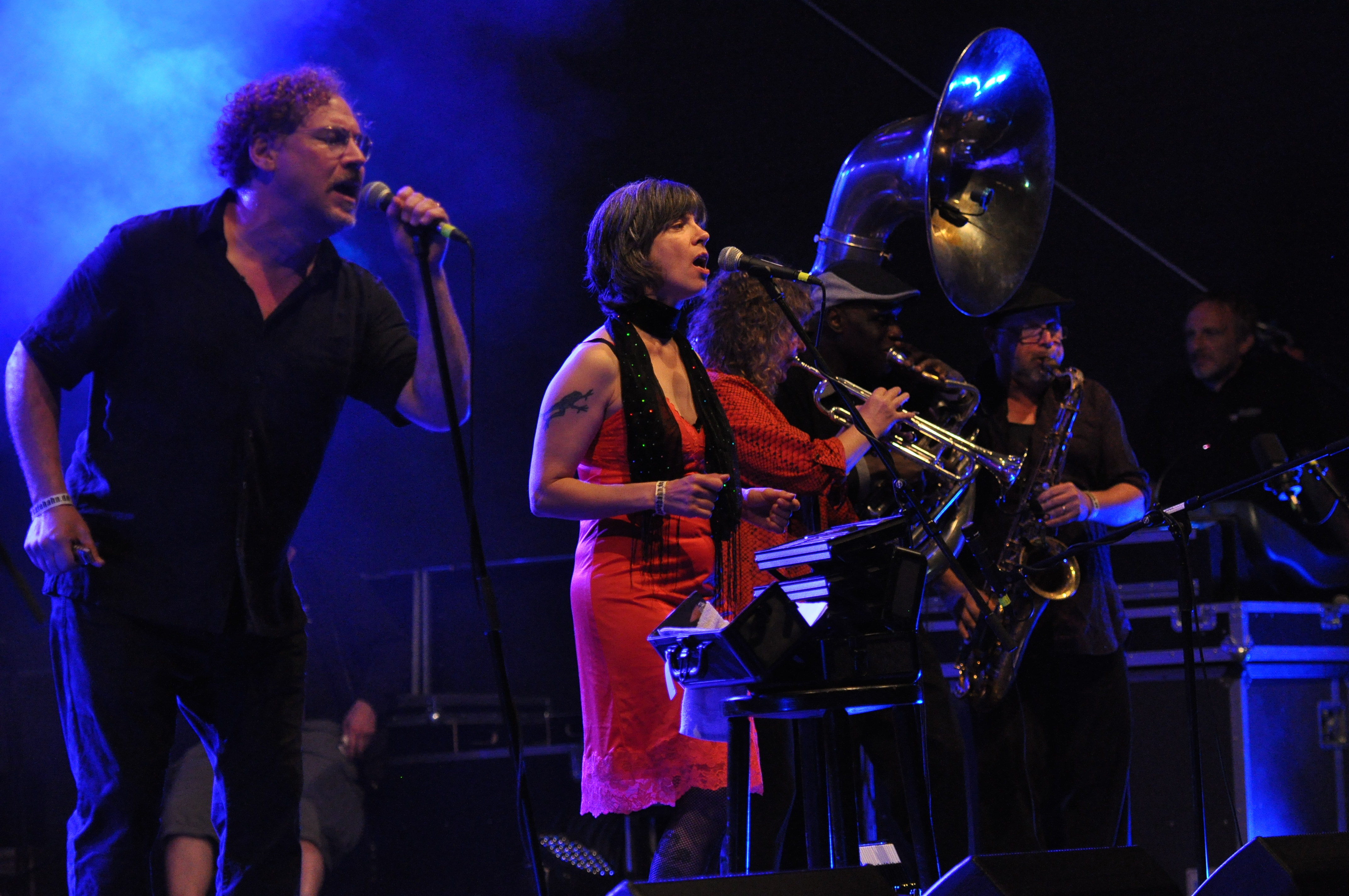 Hazmat Modine (USA), appearance at the 12th World Music Festival "Horizonte" 2014 at the fortress of Ehrenbreitstein, Koblenz (Germany)